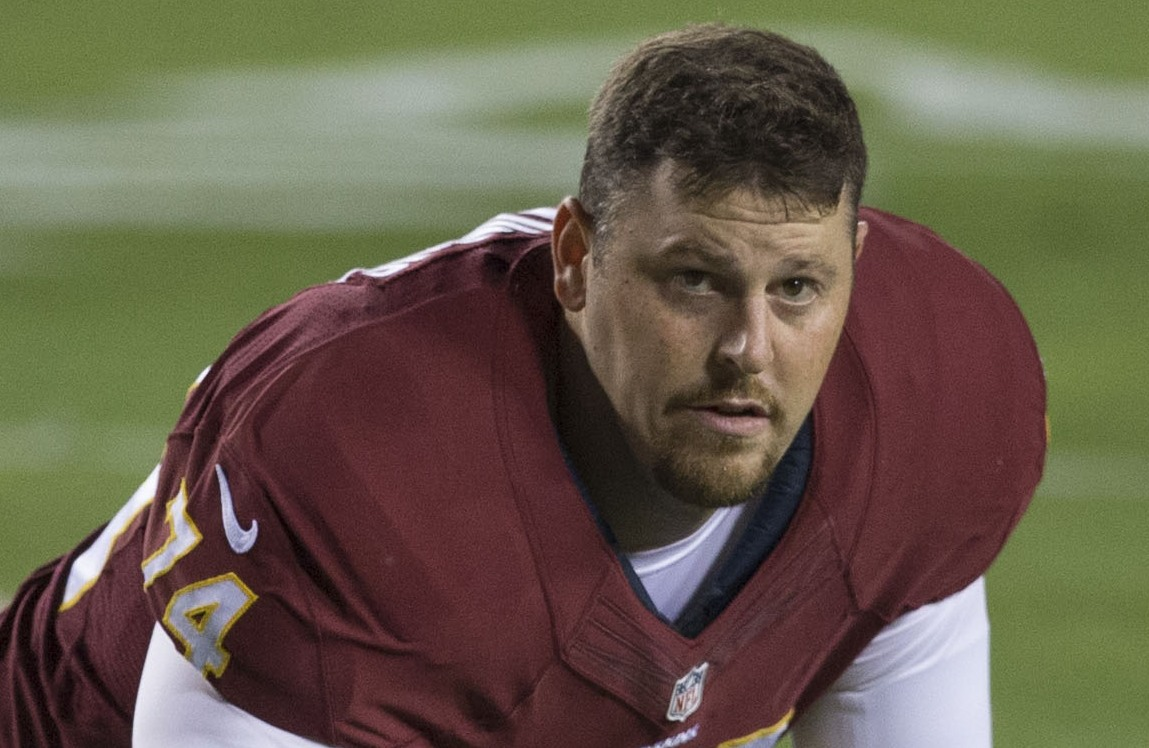 Washington Redskins offensive tackle, Tyler Polumbus, in pre-game warm-ups before a game against the New York Giants on September 25, 2014.